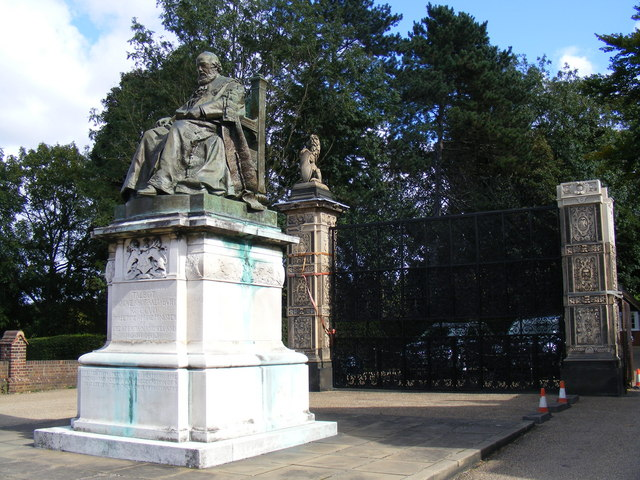 A Famous Victorian The 3rd Marquis of Salisbury, who was Prime Minister for three separate terms during the Victorian era, presides over the comings and goings at the entrance to Hatfield House.